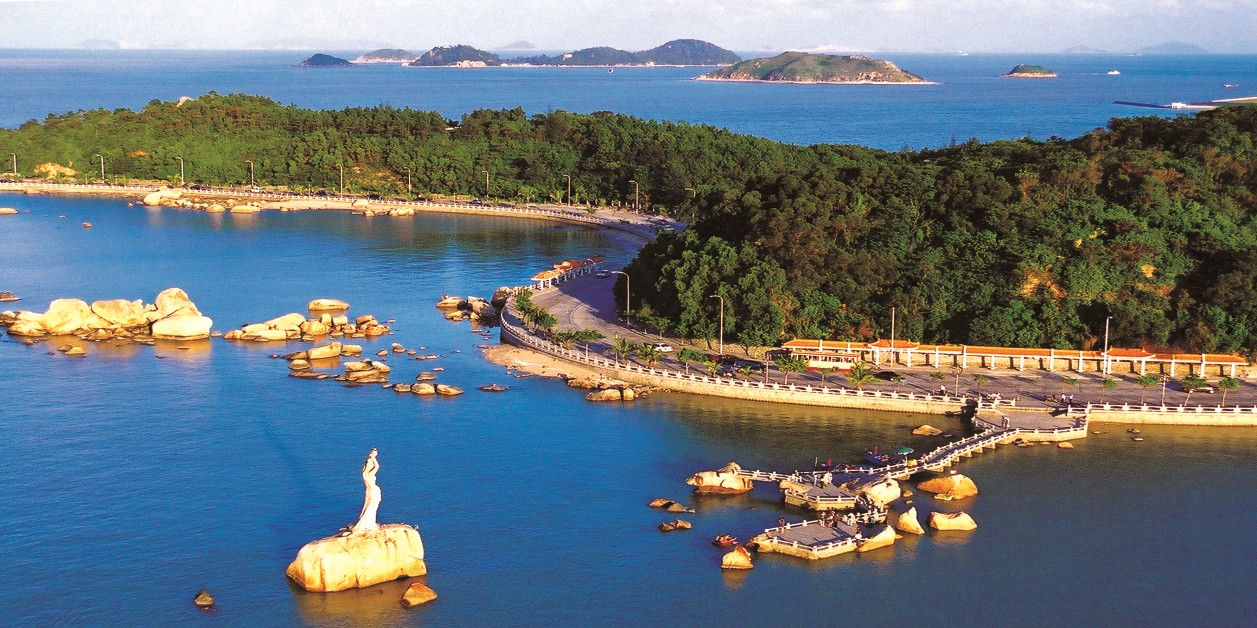 The beautiful Lover's Avenue, a coastal avenue in Zhuhai, China.